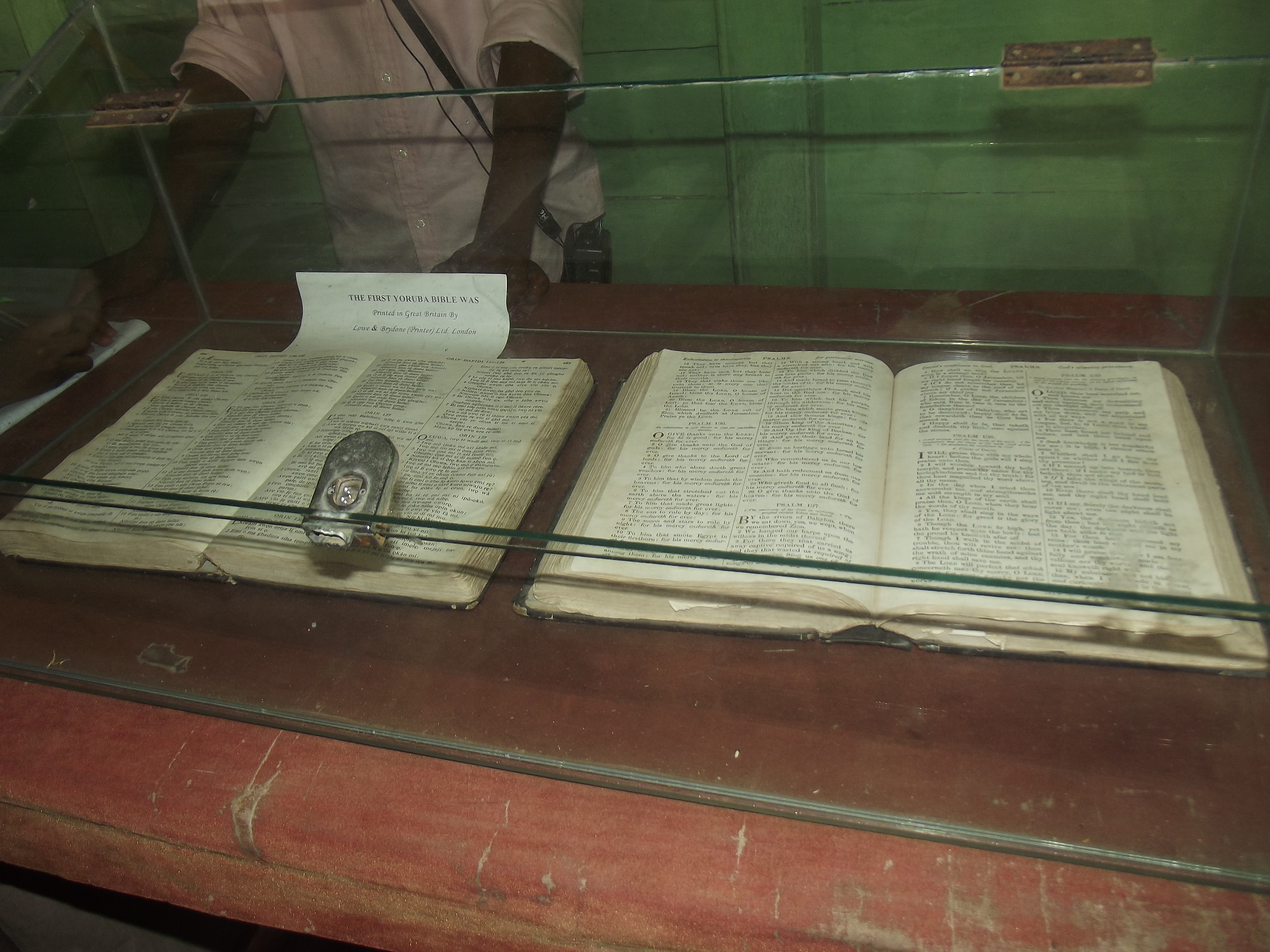 This is the first Yoruba translated Bible. This is an image of Cultural Fashion or Adornment from Nigeria